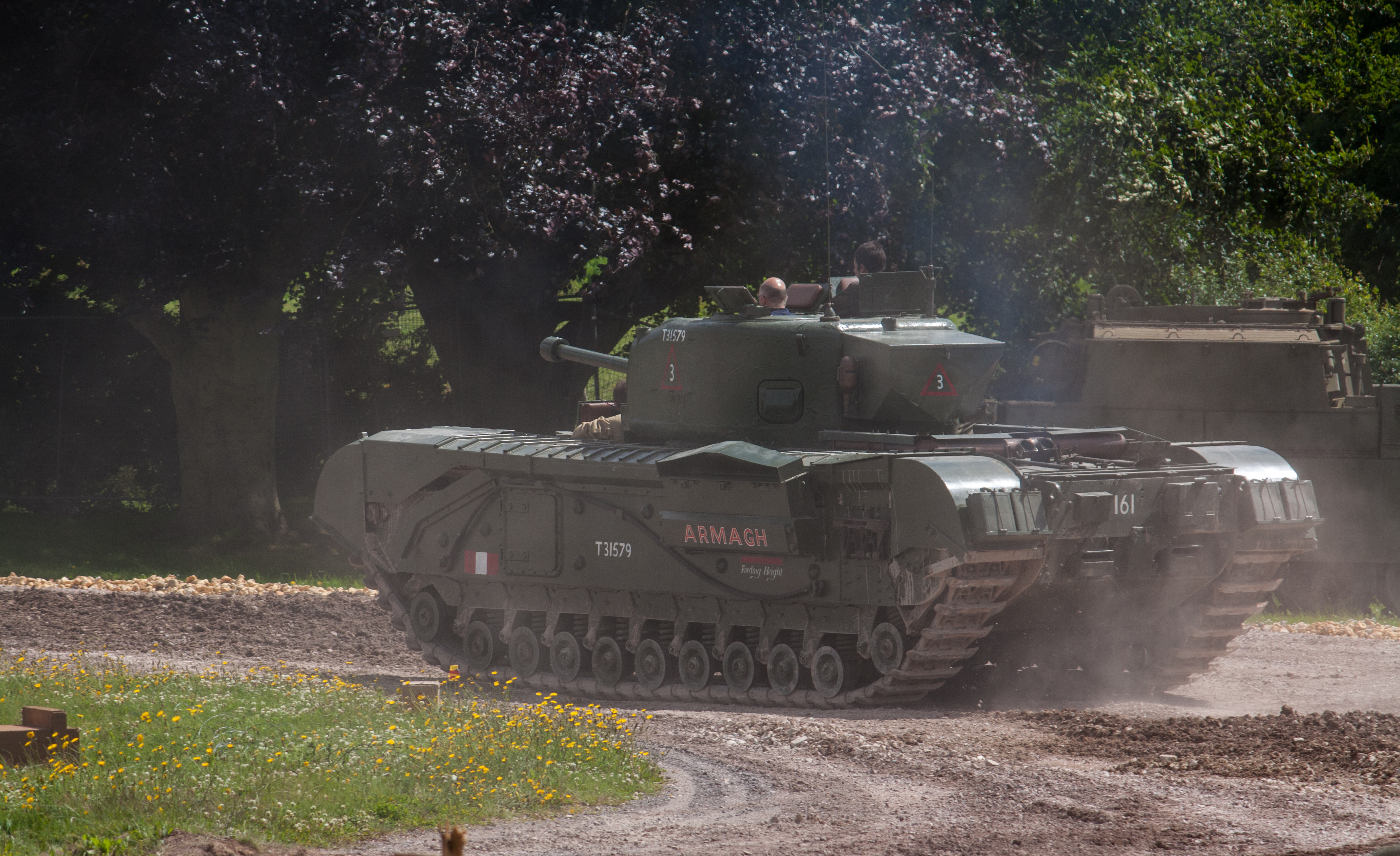 Churchill IV